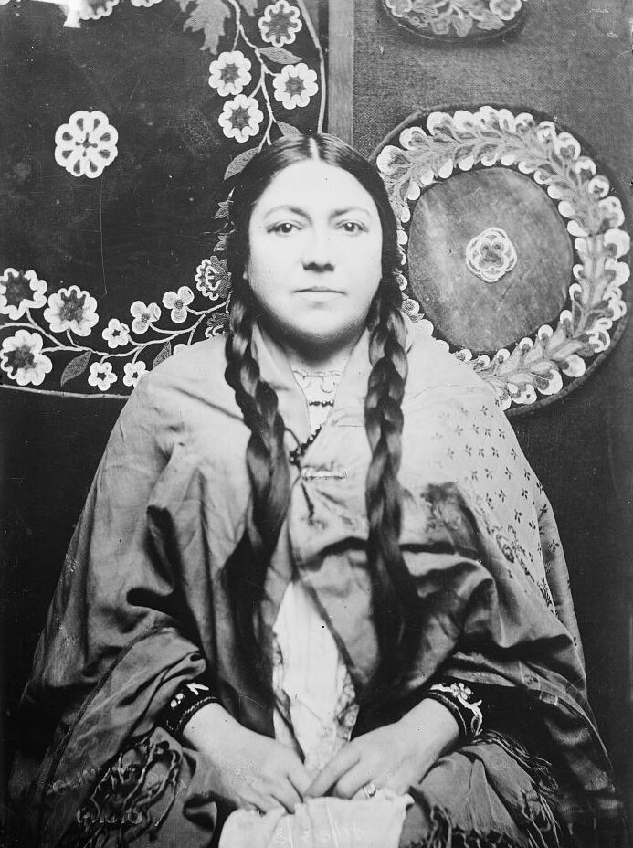 Bain News Service,, publisher. Mrs. Marie L. Baldwin [between ca. 1910 and ca. 1915] 1 negative : glass ; 5 x 7 in. or smaller. Notes: Title from unverified data provided by the Bain News Service on the negatives or caption cards. Forms part of: George Grantham Bain Collection (Library of Congress). Format: Glass negatives. Repository: Library of Congress, Prints and Photographs Division, Washington, D.C. 20540 USA, General information about the Bain Collection is available at Persistent URL: Call Number: LC-B2- 3194-10